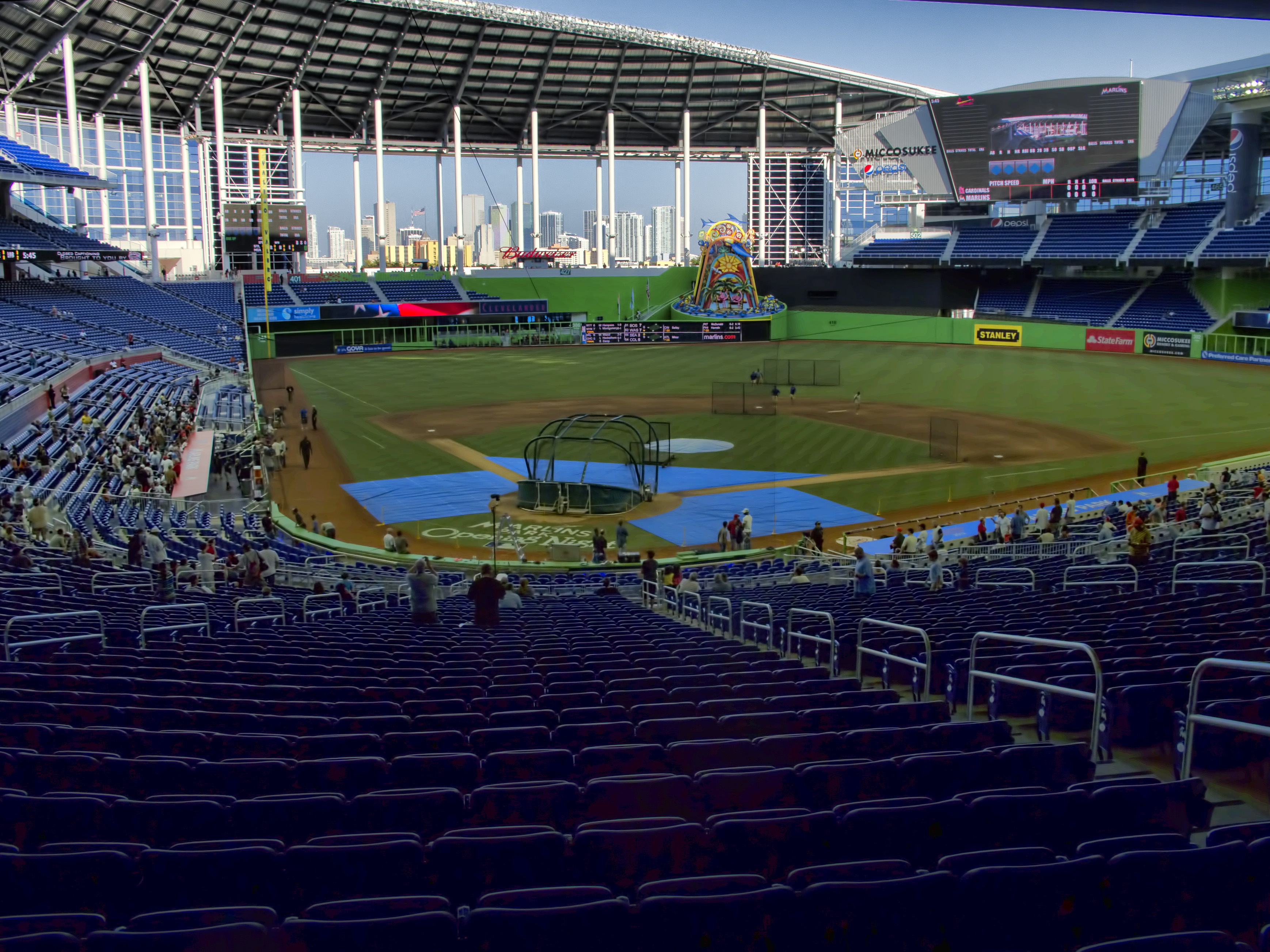 The field at Marlins Park with the Miami skyline in the background. In left centerfield is the Home Run Feature that animates should the Marlins hit a home run. The equipment on the field is for a Marlins batting practice in preparation for Opening Day 2012.